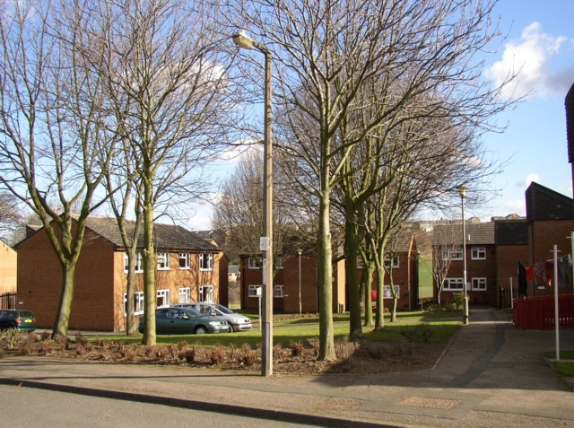 Council housing, Chapel Croft, Rastrick (SE 138 213)